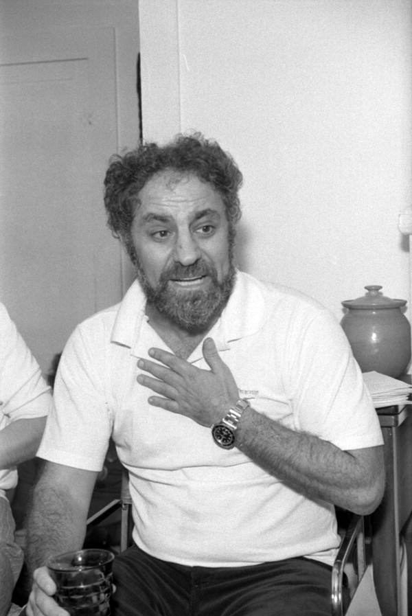 Deborah Thomas Collection. Series M98-4; Box 1, FF68